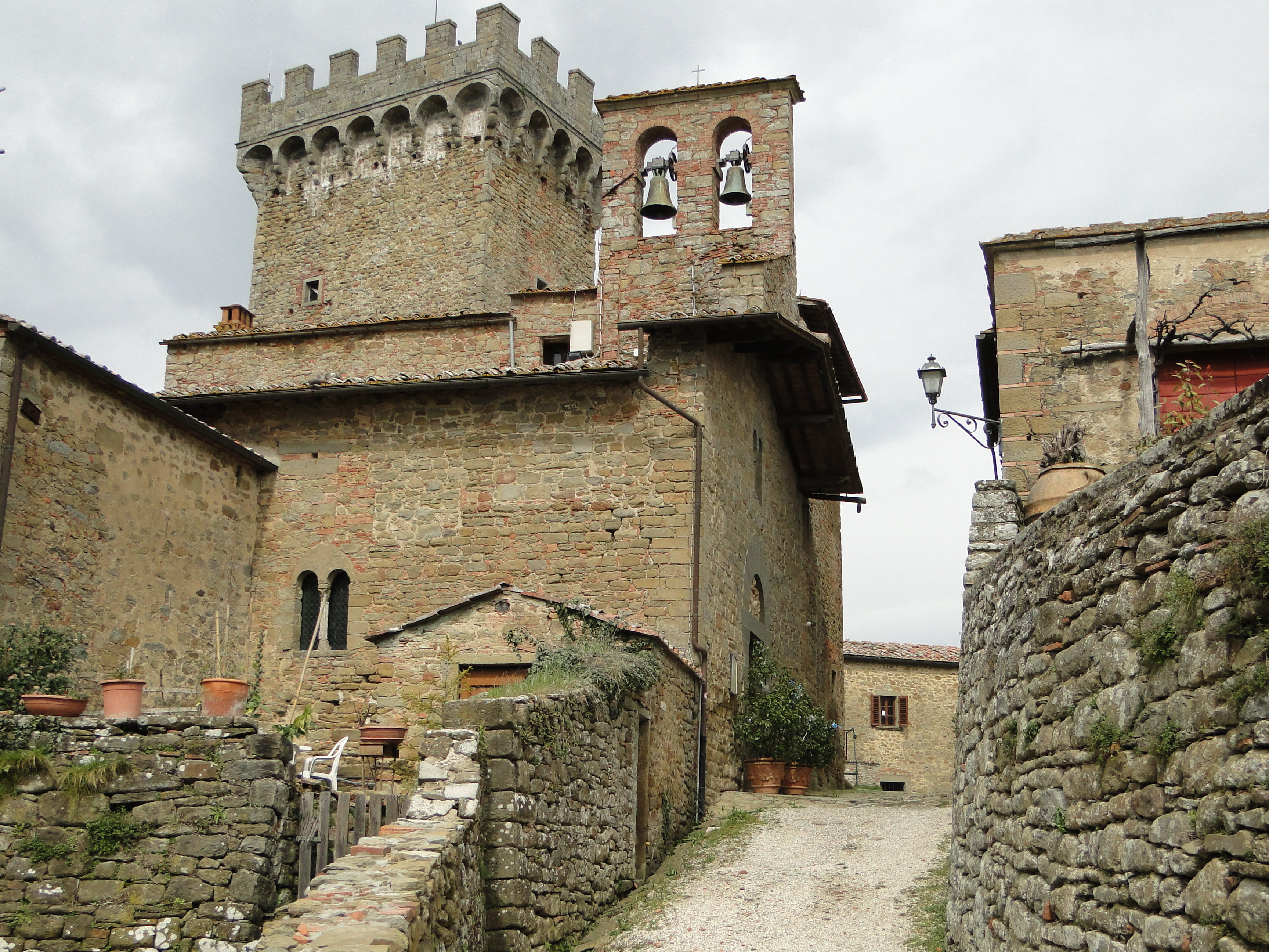 Gargonza castle-Detail